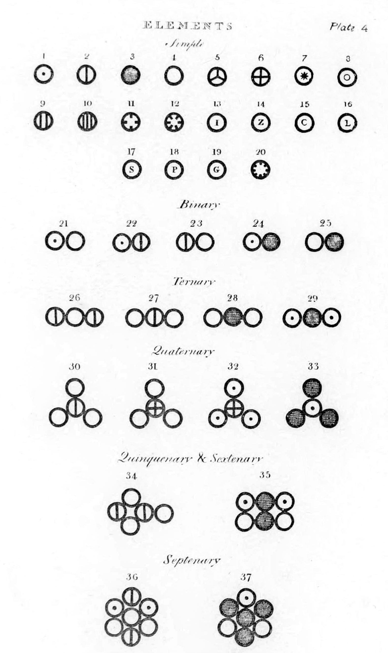 A scan of Plate IV of John Dalton's "A New System of Chemical Philosophy", published in 1808.